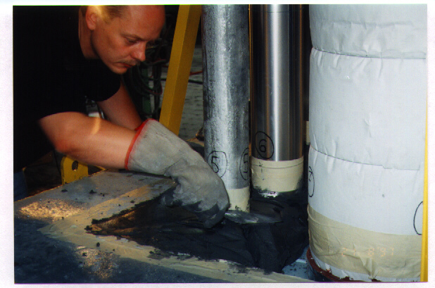 Construction of a test sample, consisting of a mock-up concrete floor frame, complete with penetrants. The concrete frame measures approximately 5' x 9' x 4" (ca. 1.5m x 2.3m x 10cm). It has a large hole in the centre with many mechanical and electrical services traversing. The penetrants extend 1' (30cm) into the furnace and 3' (91cm) on the unexposed side. A firestop mortar is being applied here. Notice the intumescent wrap strip surrounding the fibreglass pipe insulation. When the fire starts, this embedded intumescent will swell to take up the place of the melting insulation. The test was conducted in accordance with the Canadian firestop test method ULC S-115 in Scarborough, Ontario.